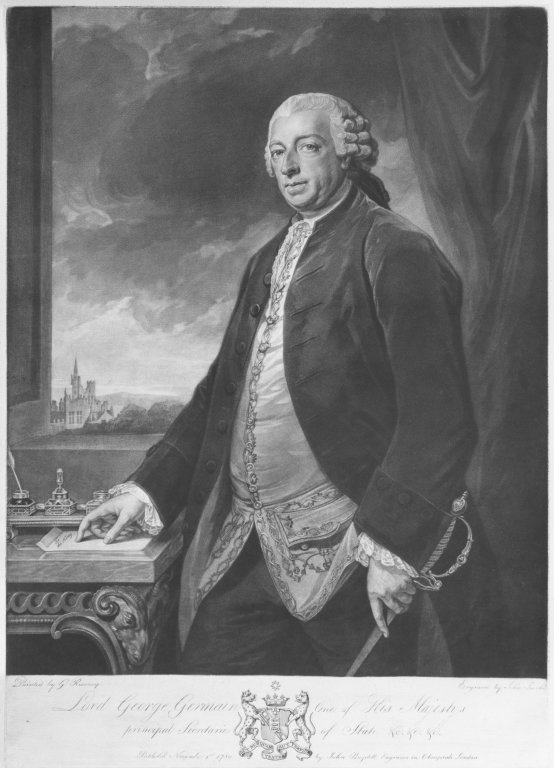 George Sackville Germain, 1st Viscount Sackville (1716-1785) army officer and politician